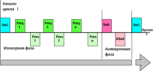 Cycle